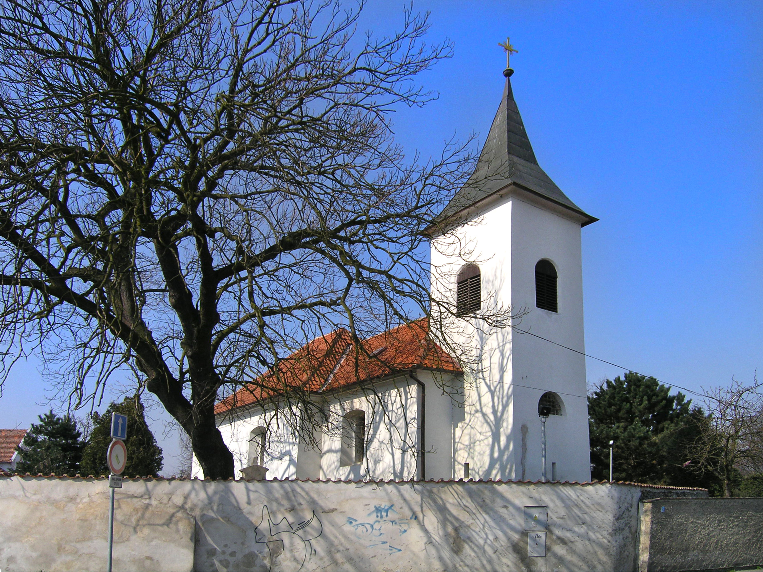 Svatý Prokop church at Hrnčíře, Prague